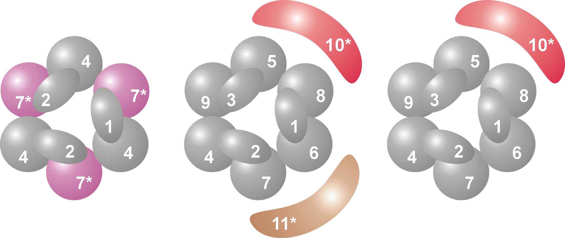 Archaeal (left), yeast (middle) and human (right) exosome complexes, with the catalytically active subunites marked in color and with a star.